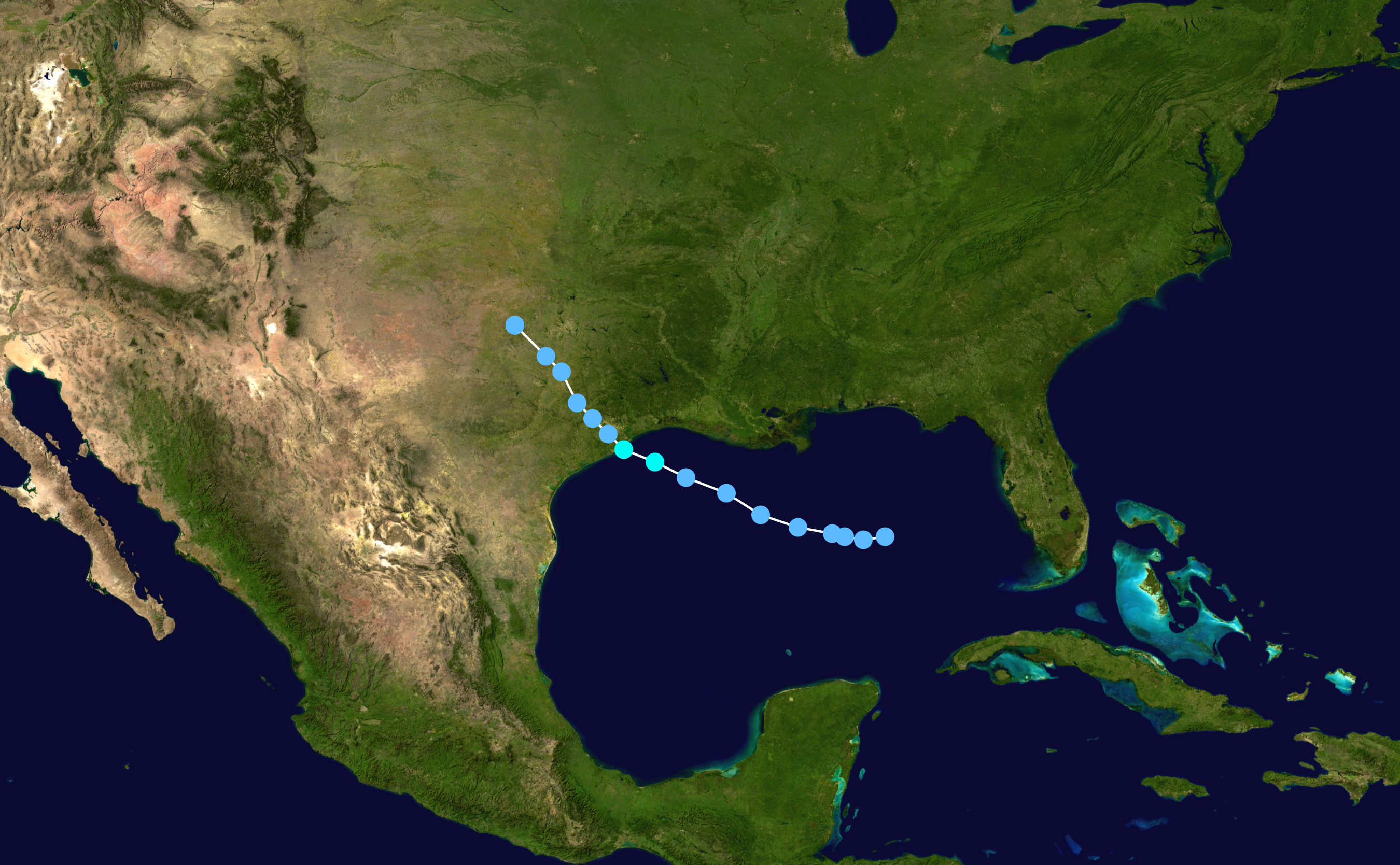 Track map of Tropical Storm Dean of the 1995 Atlantic hurricane season. The points show the location of the storm at 6-hour intervals. The colour represents the storm's maximum sustained wind speeds as classified in the Saffir–Simpson scale (see below), and the shape of the data points represent the nature of the storm, according to the legend below. Saffir–Simpson scale Tropical depression≤38 mph≤62 km/h Category 3111–129 mph178–208 km/h Tropical storm39–73 mph63–118 km/h Category 4130–156 mph209–251 km/h Category 174–95 mph119–153 km/h Category 5≥157 mph≥252 km/h Category 296–110 mph154–177 km/h Unknown Storm type Tropical cyclone Subtropical cyclone Extratropical cyclone / Remnant low / Tropical disturbance / Monsoon depression